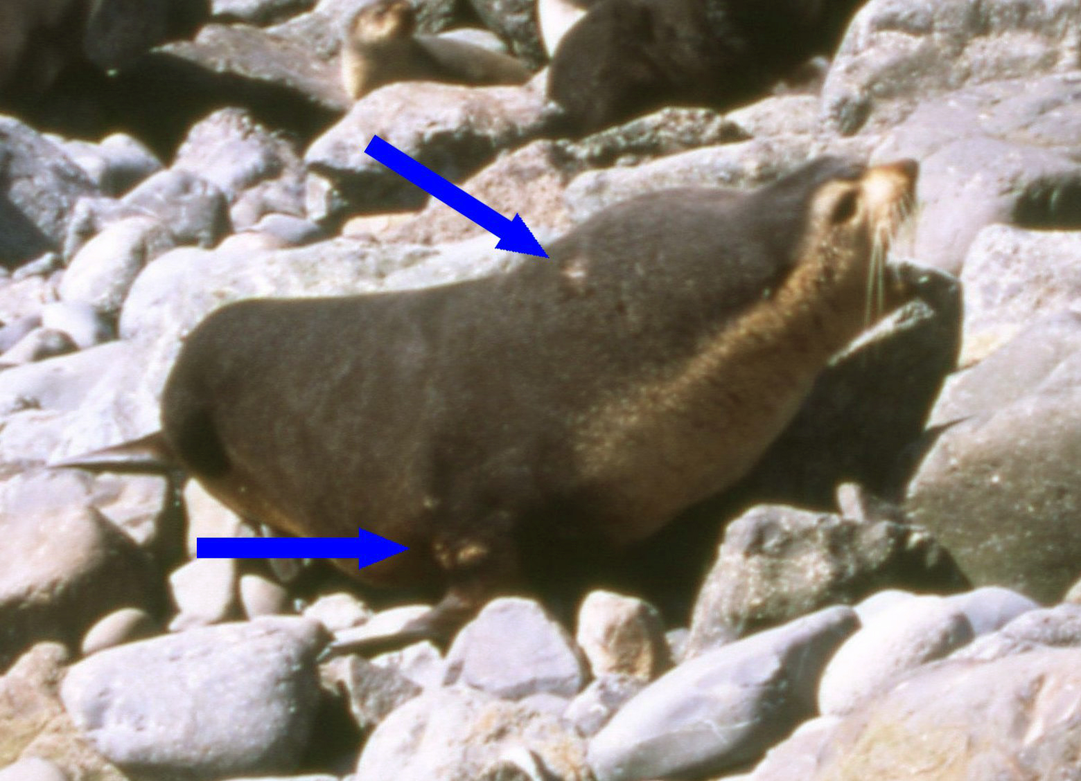 This picture was taken in Possession Island (Crozet Archipelago) at the site named "the elephant seal pool". This picture was taken in december 2002 by Nicolas Servera. This picture is an enlargement of the picture “Arctocephalus tropicalis Crozet fight 01.JPG”. You can see a male of the subantarctic fur seal (Arctocephalus tropicalis) during a confrontation with another one. The blue arrows show two old scares, one on the the top of the neck, one on the foreleg.